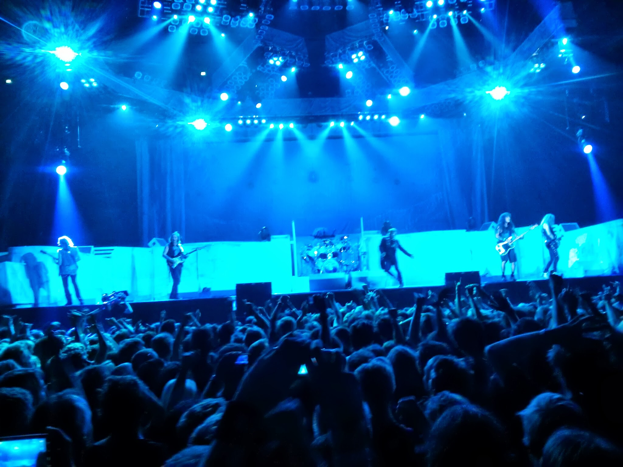 Iron Maiden performing at Friends Arena, Solna, Stockholm on 13 July 2013